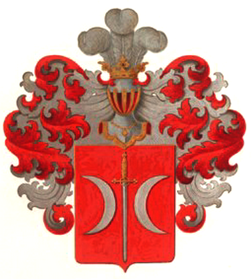 Coat of Arms of family Zagorski